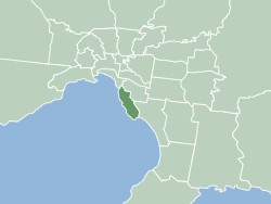 Map of Melbourne's Local Government Areas, highlighting City of Bayside